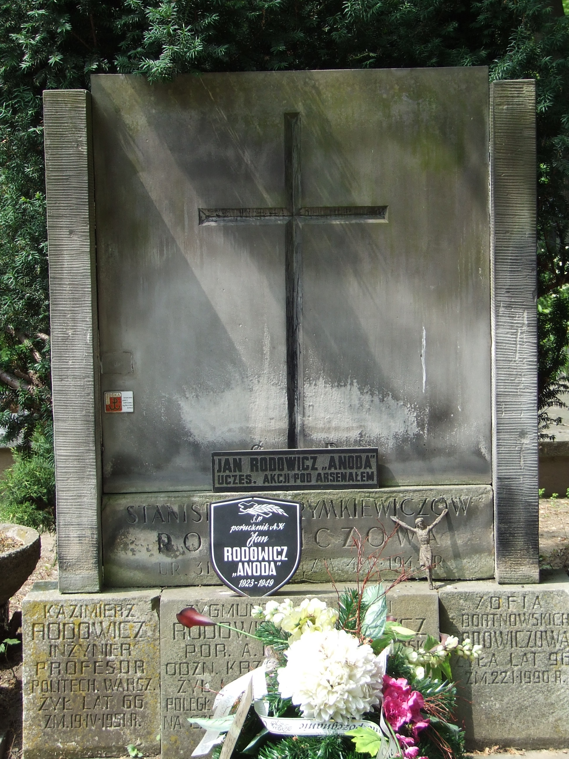 Grave of Col. Jan Rodowicz 'Anoda'